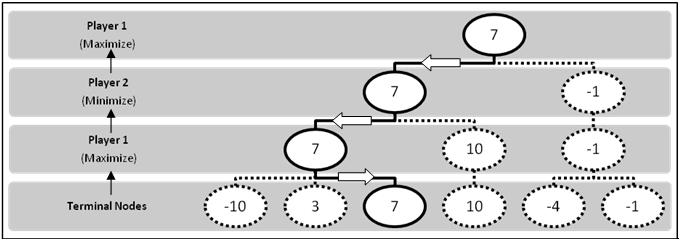 Illustration of the minimax search